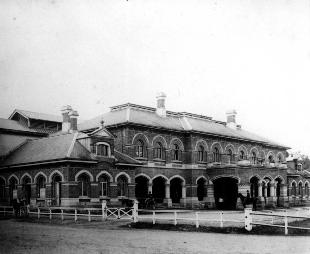 Roma Street Railway Station in Brisbane, ca. 1890. Exterior view of the brick buildings of the Roma Street Railway Station in Brisbane. A man in a horse-drawn carriage and a man on horseback stand outside the station.